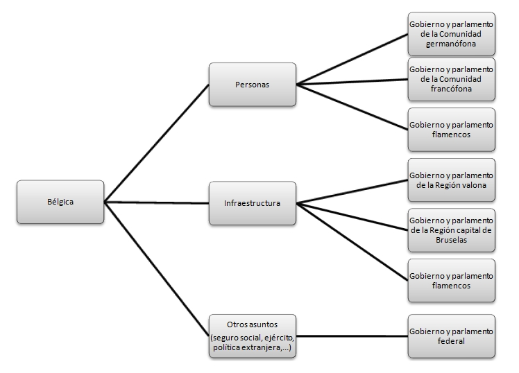 Diagram of Belgian state organization and the jurisdictions of the regions, communities and the federal goverment